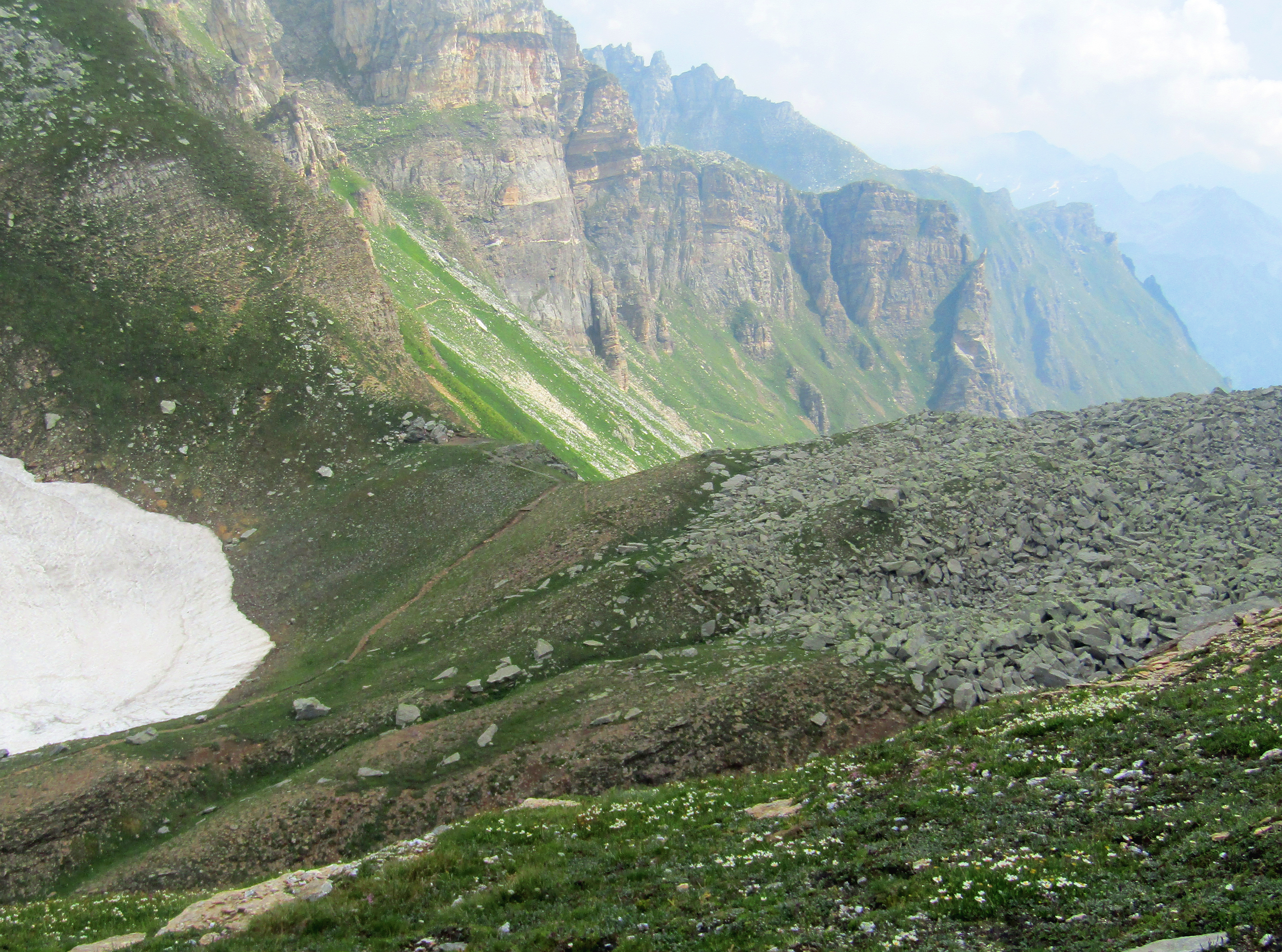 Passo di Valtendra (Lepontine Alps, Italy)